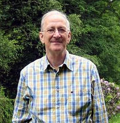 Dirk van Dalen, Oberwolfach 2008